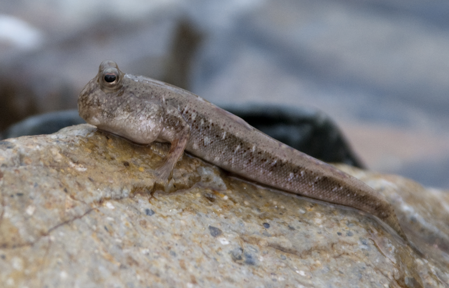 Periophthalmus modestus